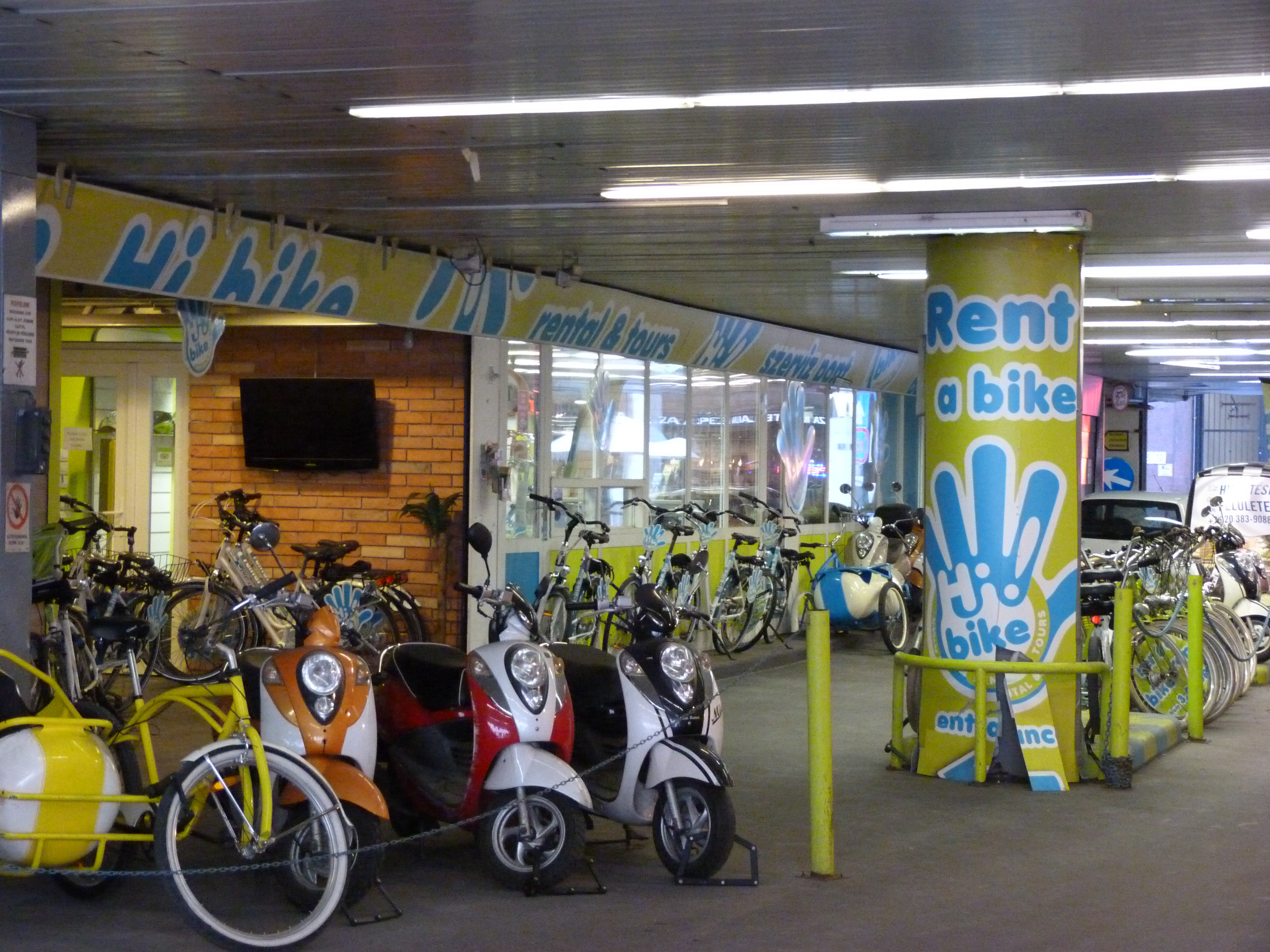 Taken on the 18rh of January, 2016. Rent a bike at Szervita square, Budapest.